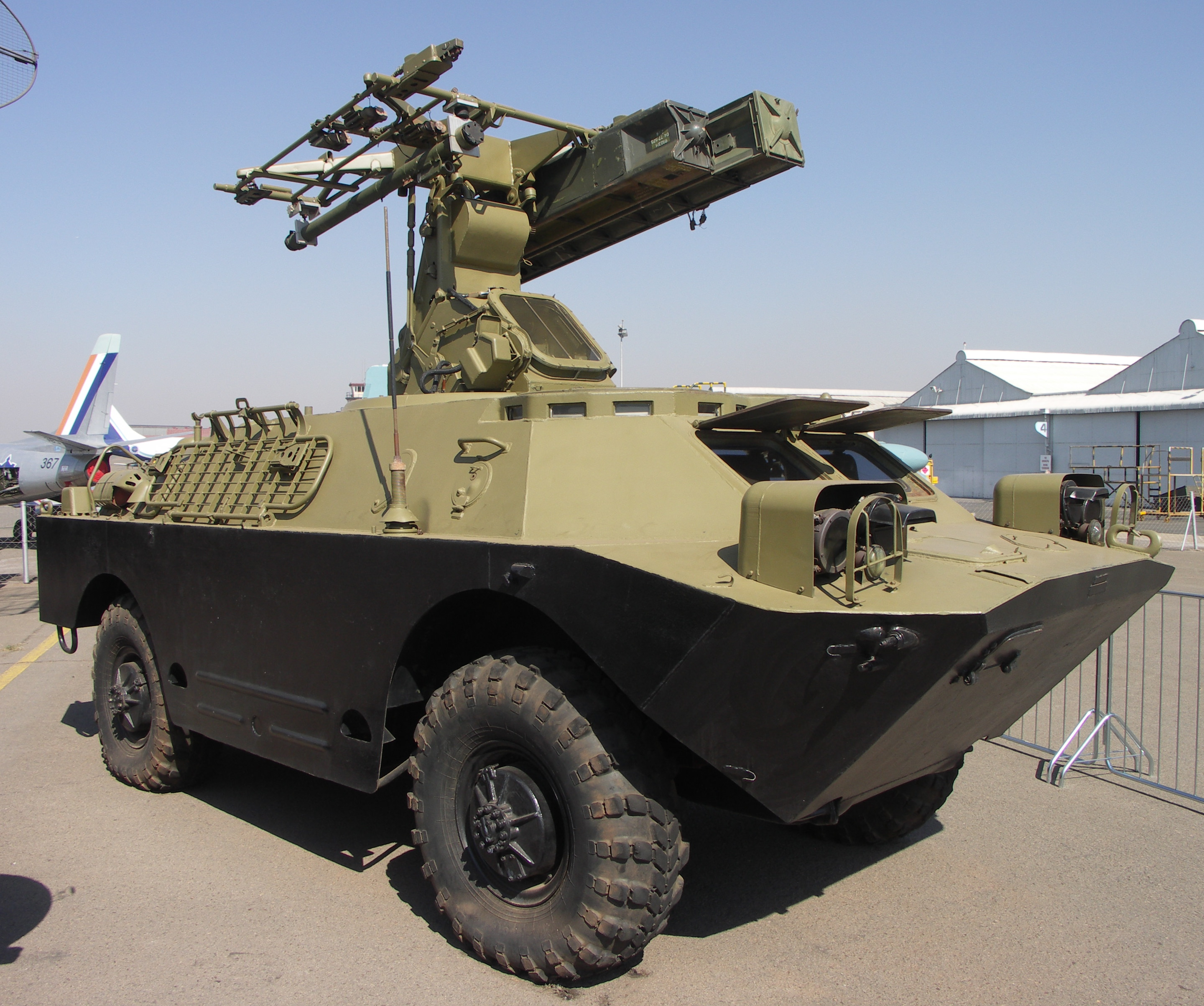 9K31 Strela-1 captured in Angola by the South African Defense Force during the South Border War. Exhibited at the South African Air Force Museum, Swartkop